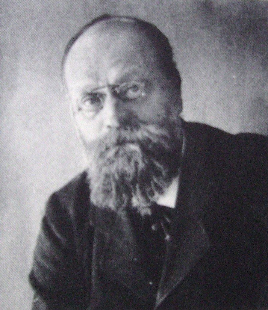 Picture of Gustav Sundbärg, Swedish professor